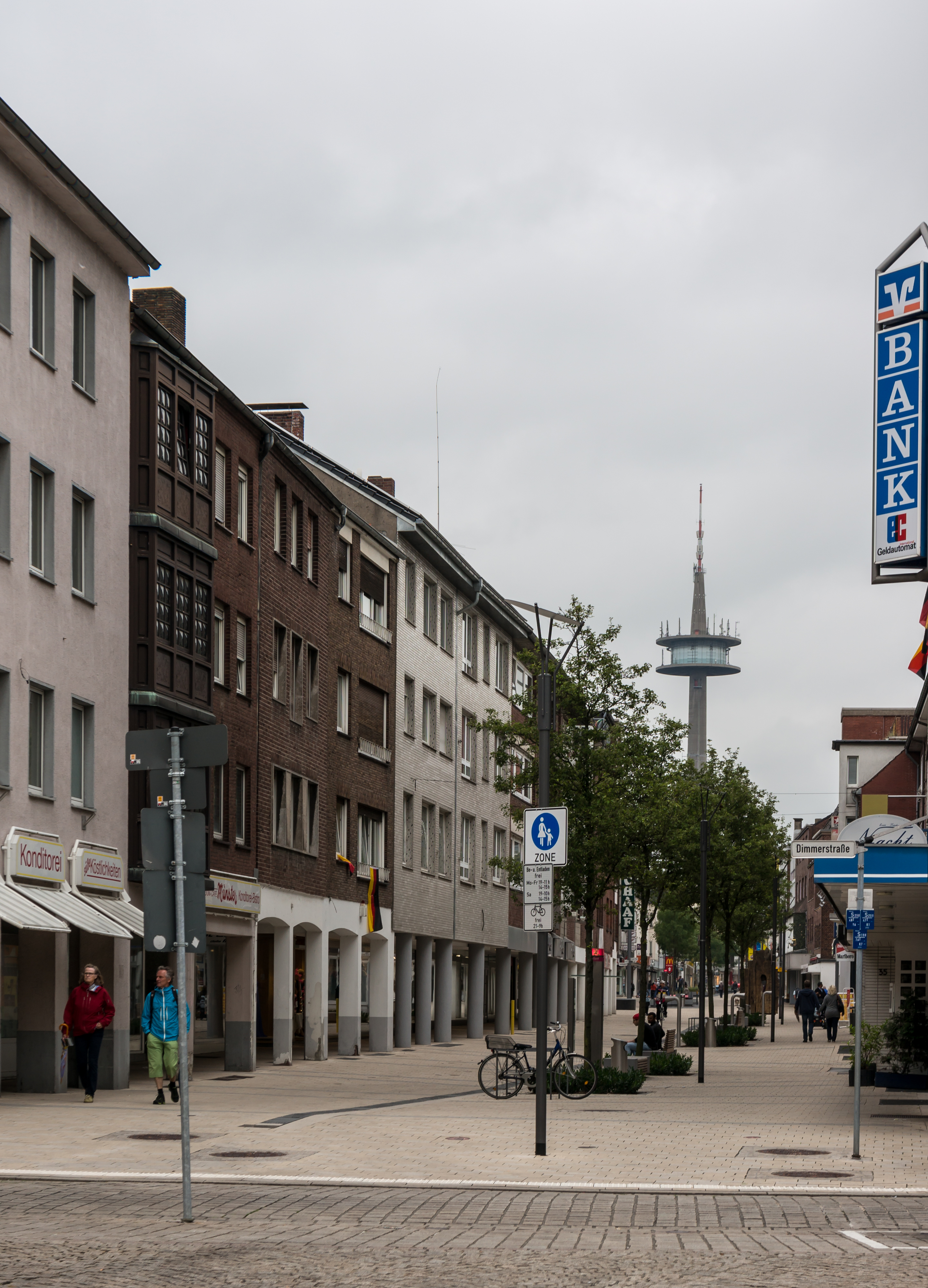 Shopping street, Wesel, North Rhine-Westphalia, Germany